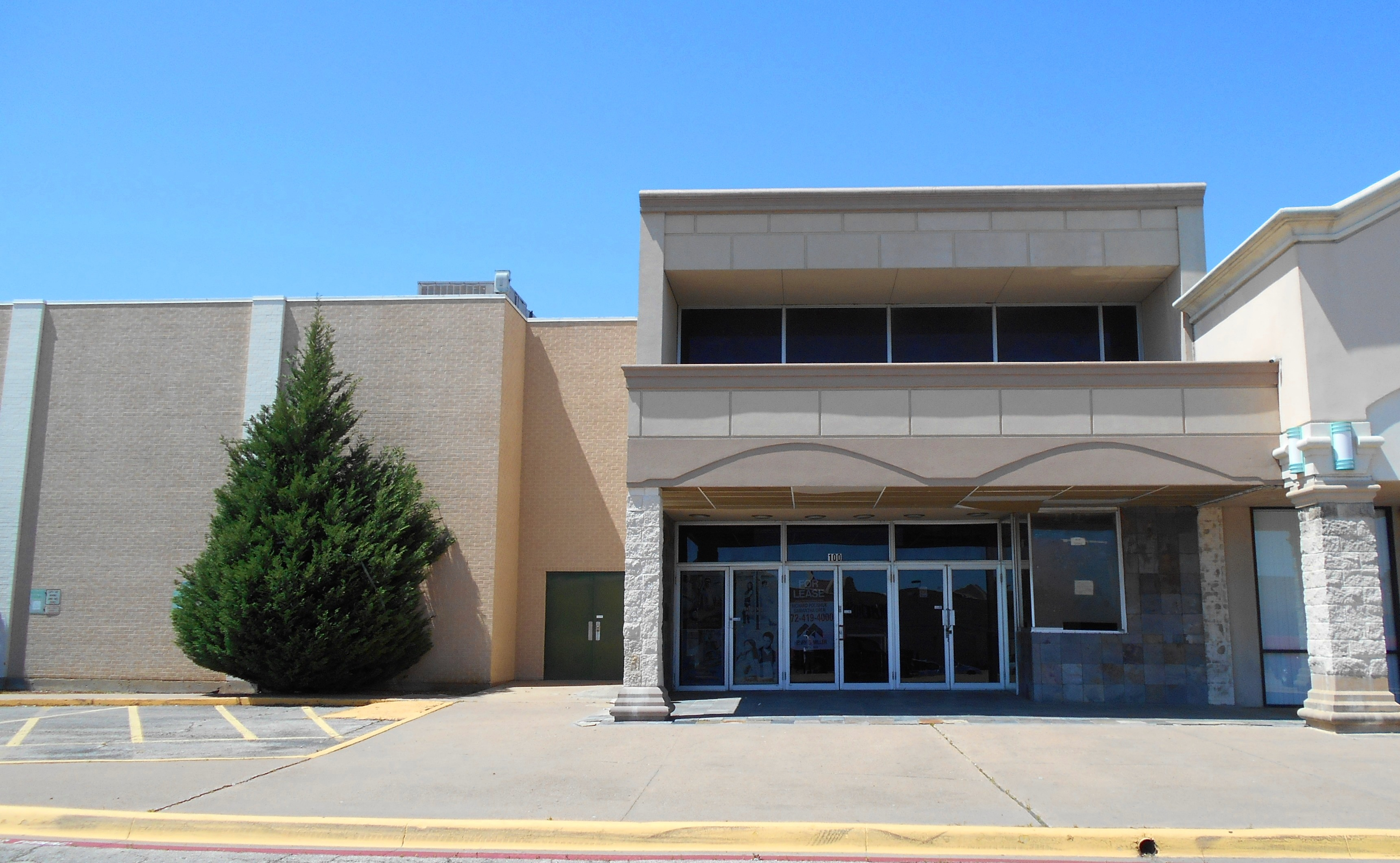 This was the Chateau Theater in Irving, Texas, circa April 8, 2014. Since its last tenant Everest / FunAsia moved, this 3-theater cinema sits abandoned to this day.